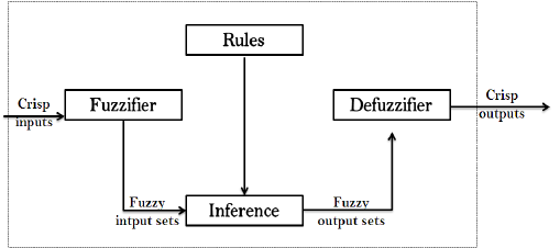 Defuzzification